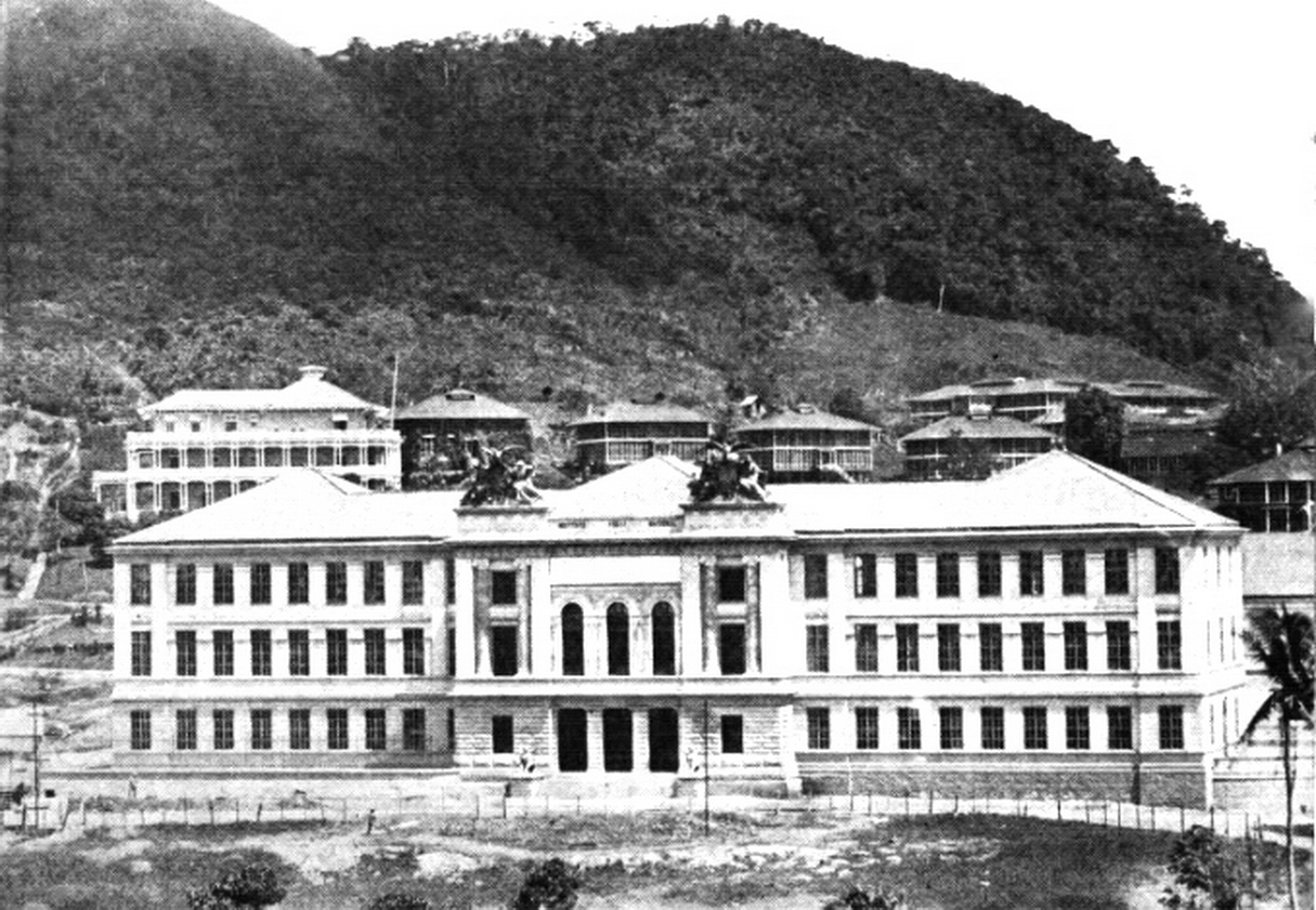 The page number and name of the illustration is the same as the caption in this book about Panama and it's History (c) 1916.